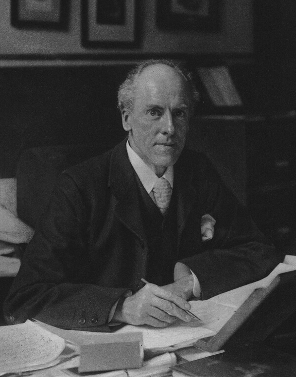 photogravure 128 mm x 171 mm